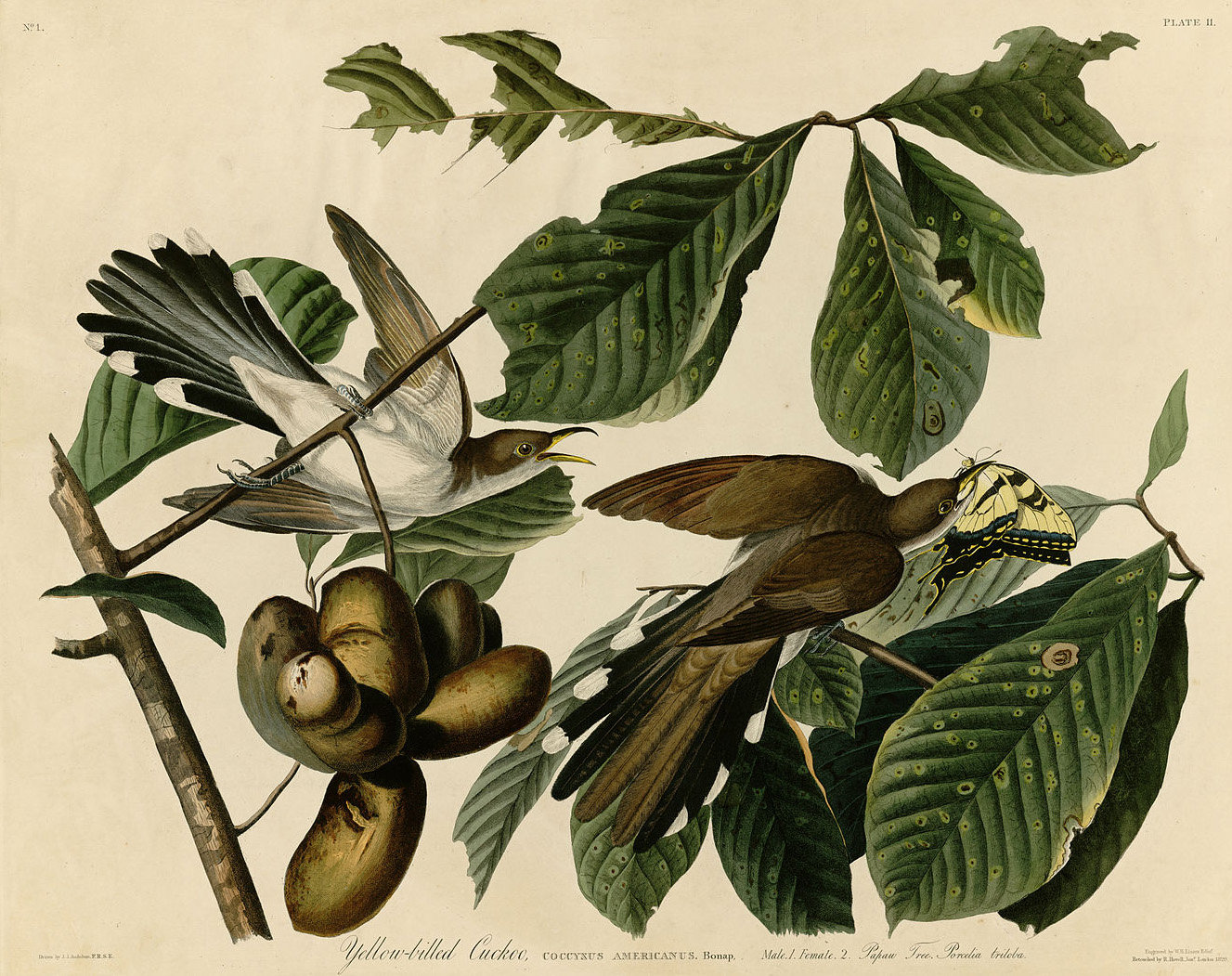 Plate 2 of Birds of America by John James Audubon depicting Yellow-billed Cuckoo.